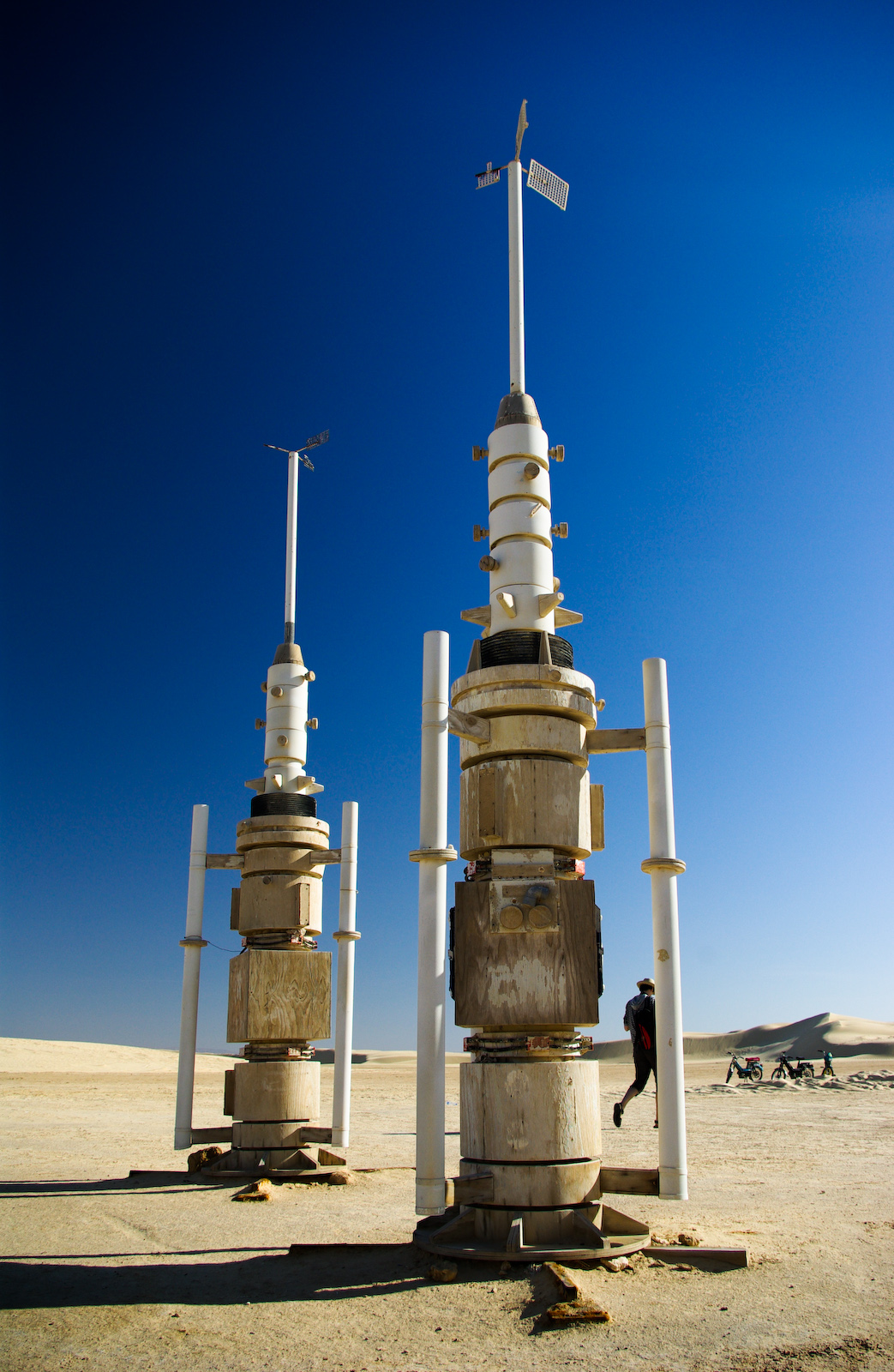 Star Wars set in the Tunisian desert.